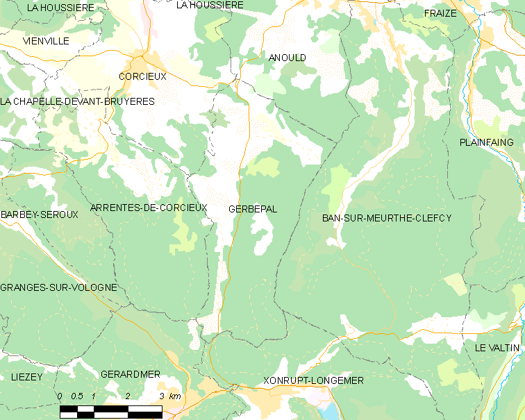 Map of French municipality Gerbépal